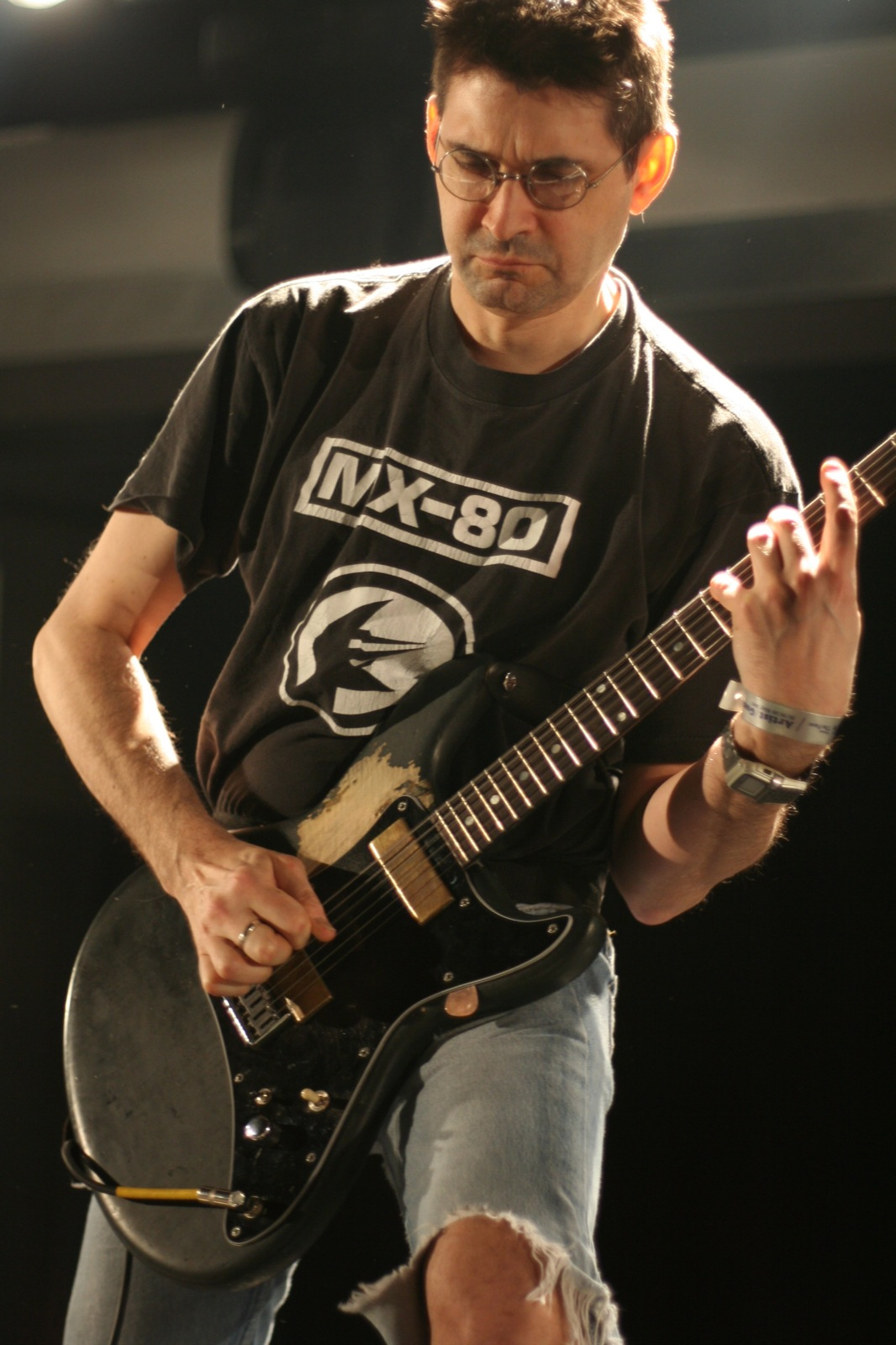 Steve Albini performs at ATP vs. the Fans, Minehead, England, May 07